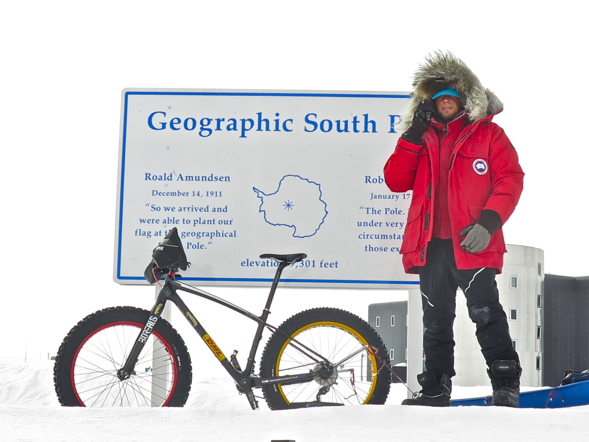 Completion of first bike ride from coast of Antarctica to the South Pole